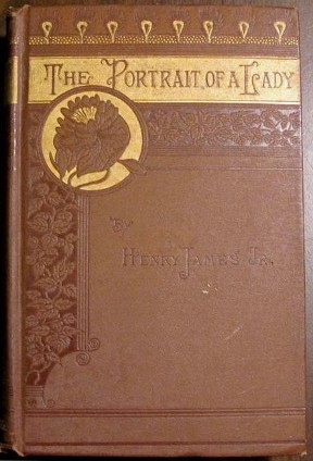 Cover first edition